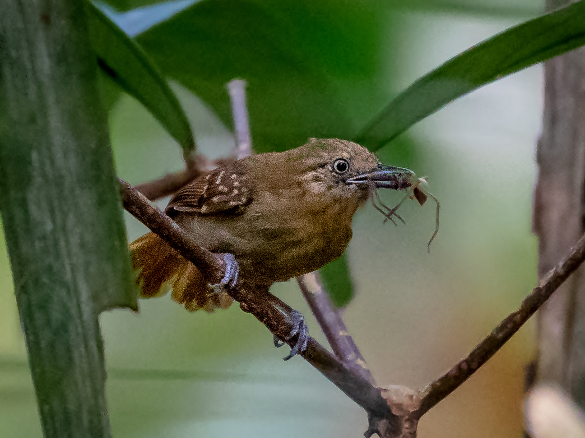 Brown-bellied Antwren (female); Manaus, Amazonas, Brazil